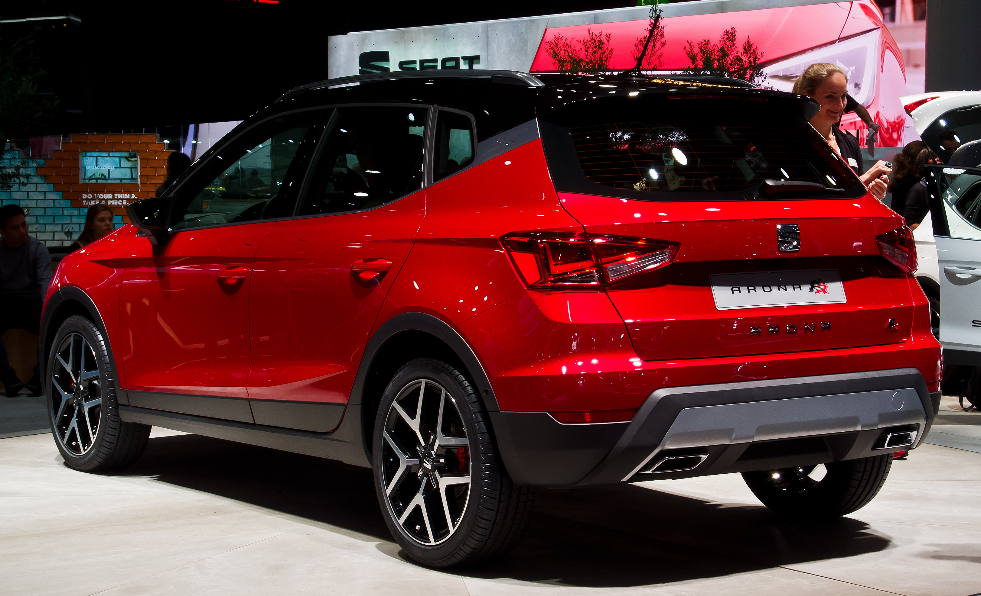 Seat Arona 1.0 EcoTSI FR